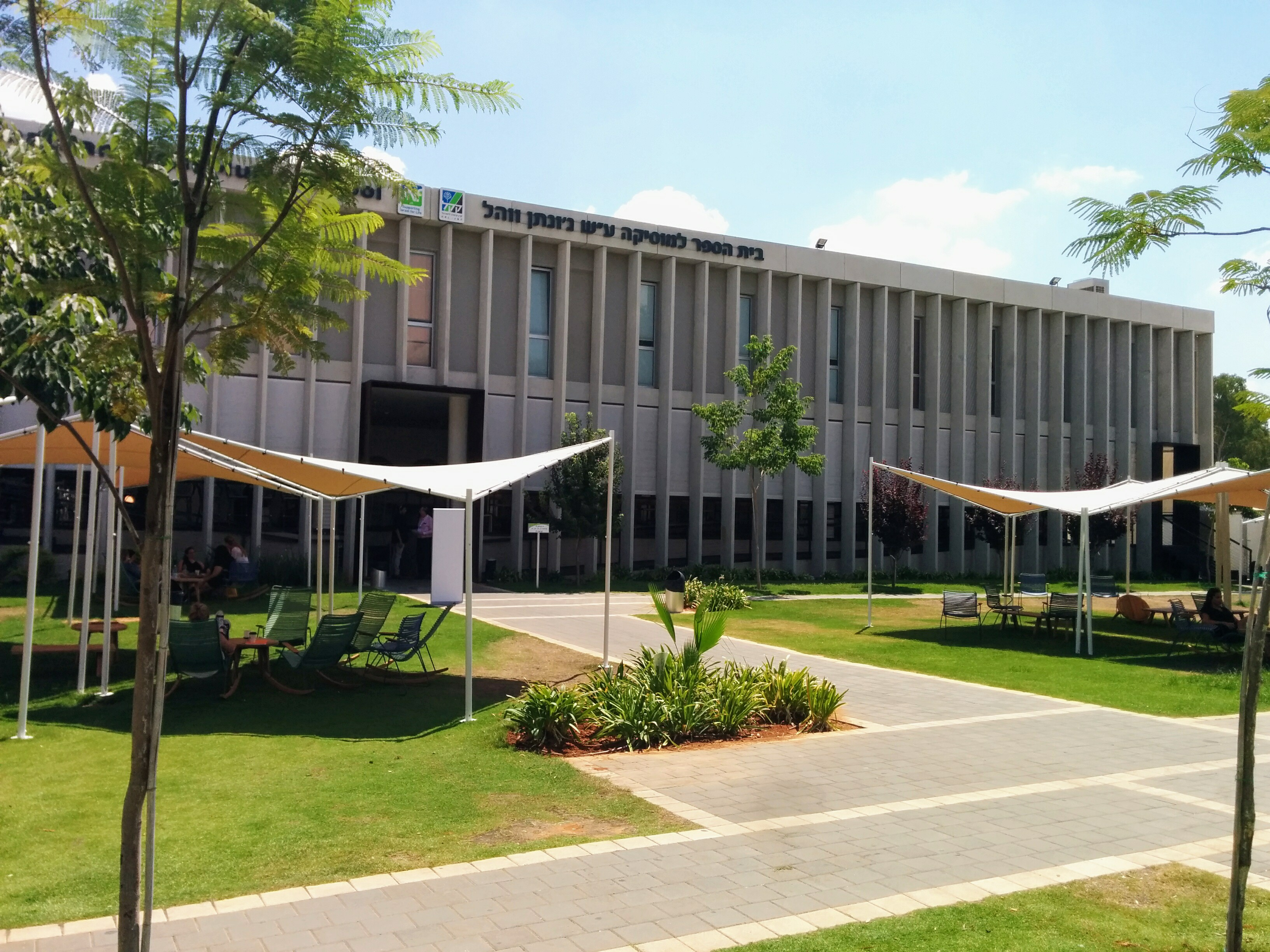 Ono Academic College main campus, Kiryat Ono